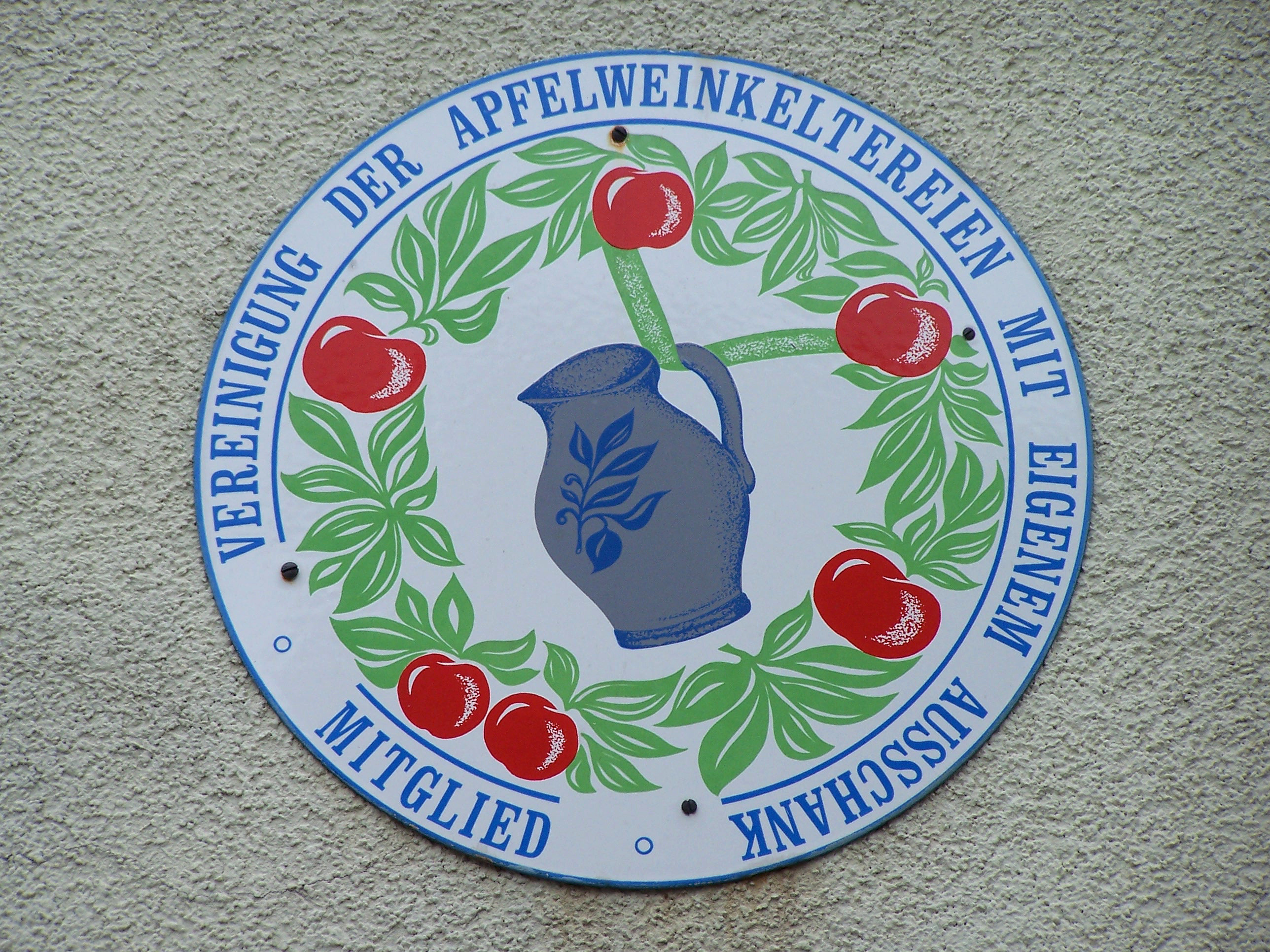 Sign of cider manufacturers with own public bar at the Eulenburg, Eulengasse 46 in Frankfurt am Main-Bornheim in June 2012